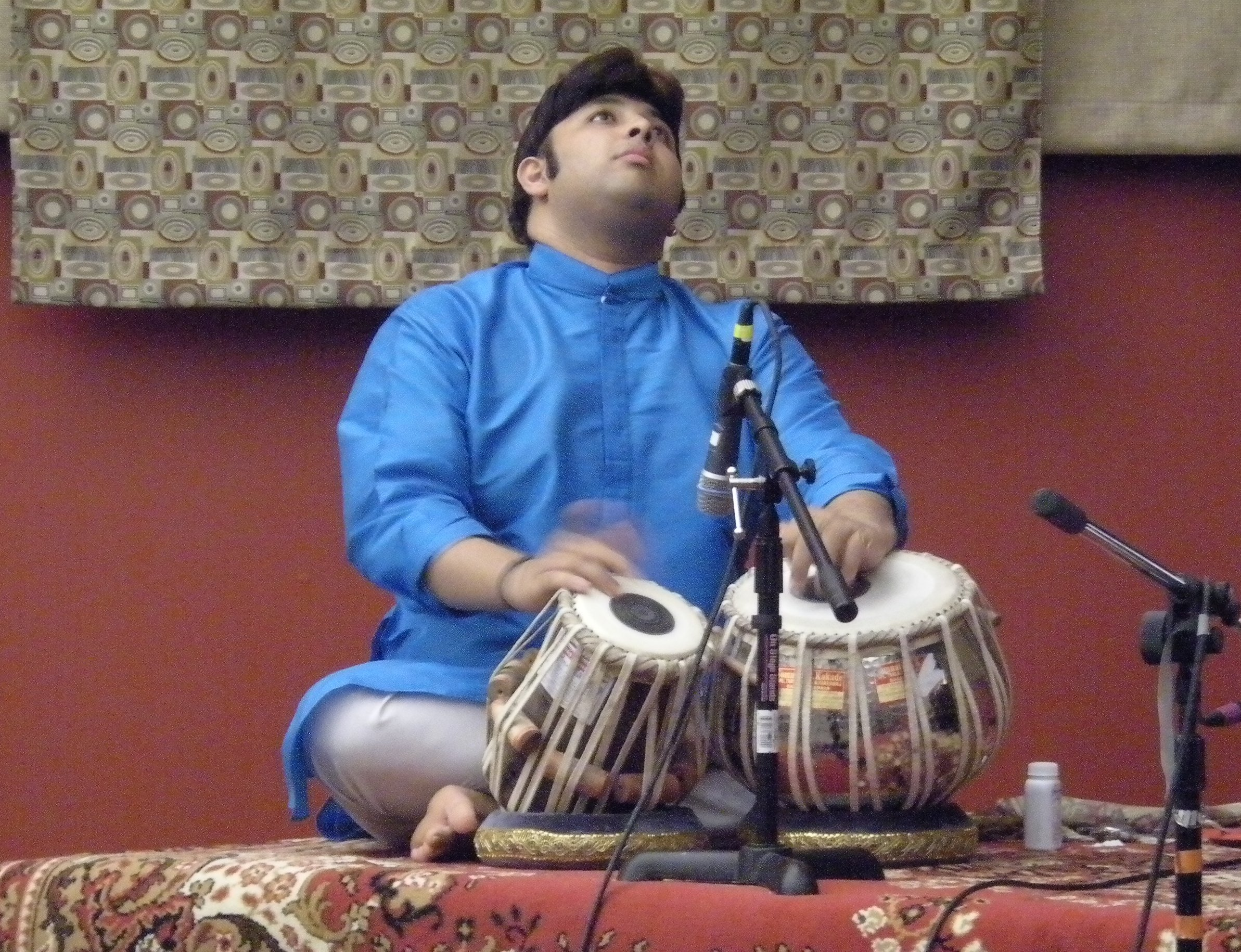 Tabla-player Anubrata Chatterjee accompanying Tejendra Narayan Majumdar (not shown) in a concert at Spring Hall, Eastshore Unitarian Church, Bellevue, Washington as part of the Seattle-area Ragamala series.